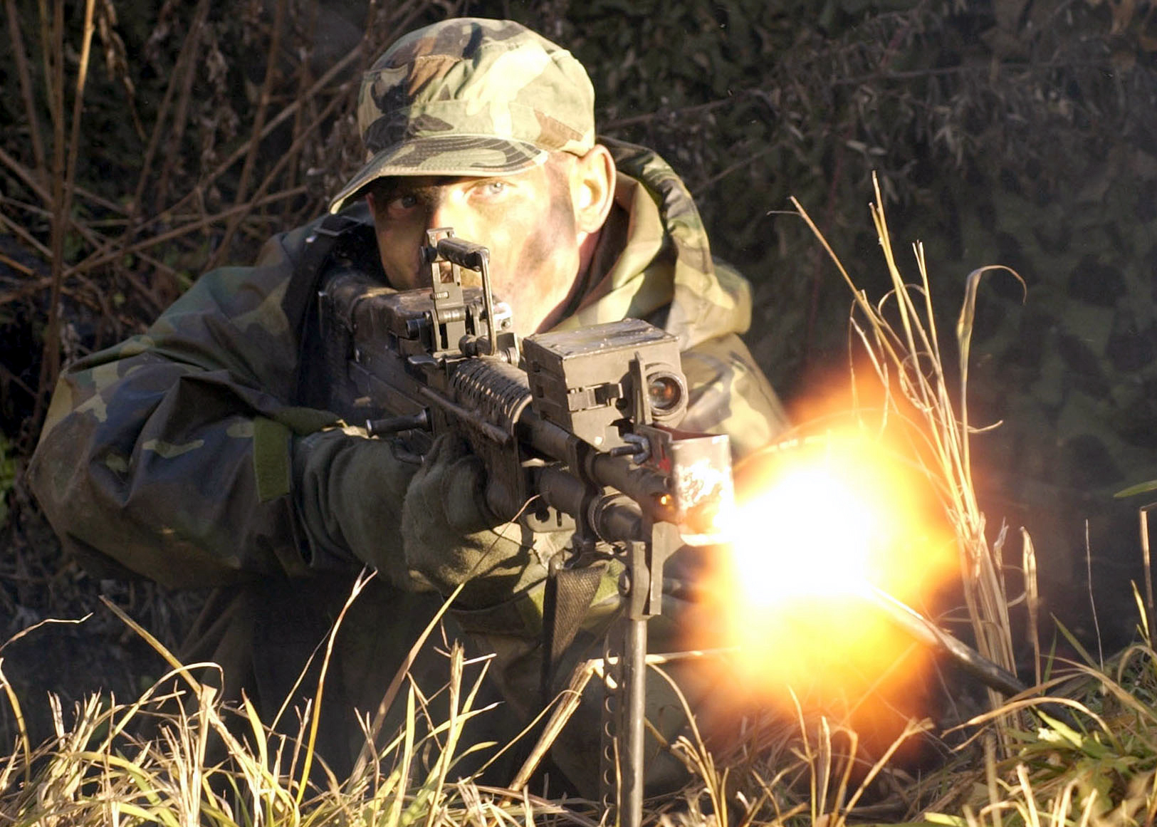 Misawa Air Force Base, Japan (Nov. 21, 2002) -- Staff Sgt. Aaron Williams, assigned to the 35th Security Forces Squadron, fires 7.62mm rounds from his M-60 machine gun during a training exercise. Ongoing training by the security forces prepares the units to protect forward deployed units from hostile fire as well as assaulting fixed enemy defenses. U.S. Navy photo by Photographer’s Mate 2nd Class John Collins. (RELEASED)